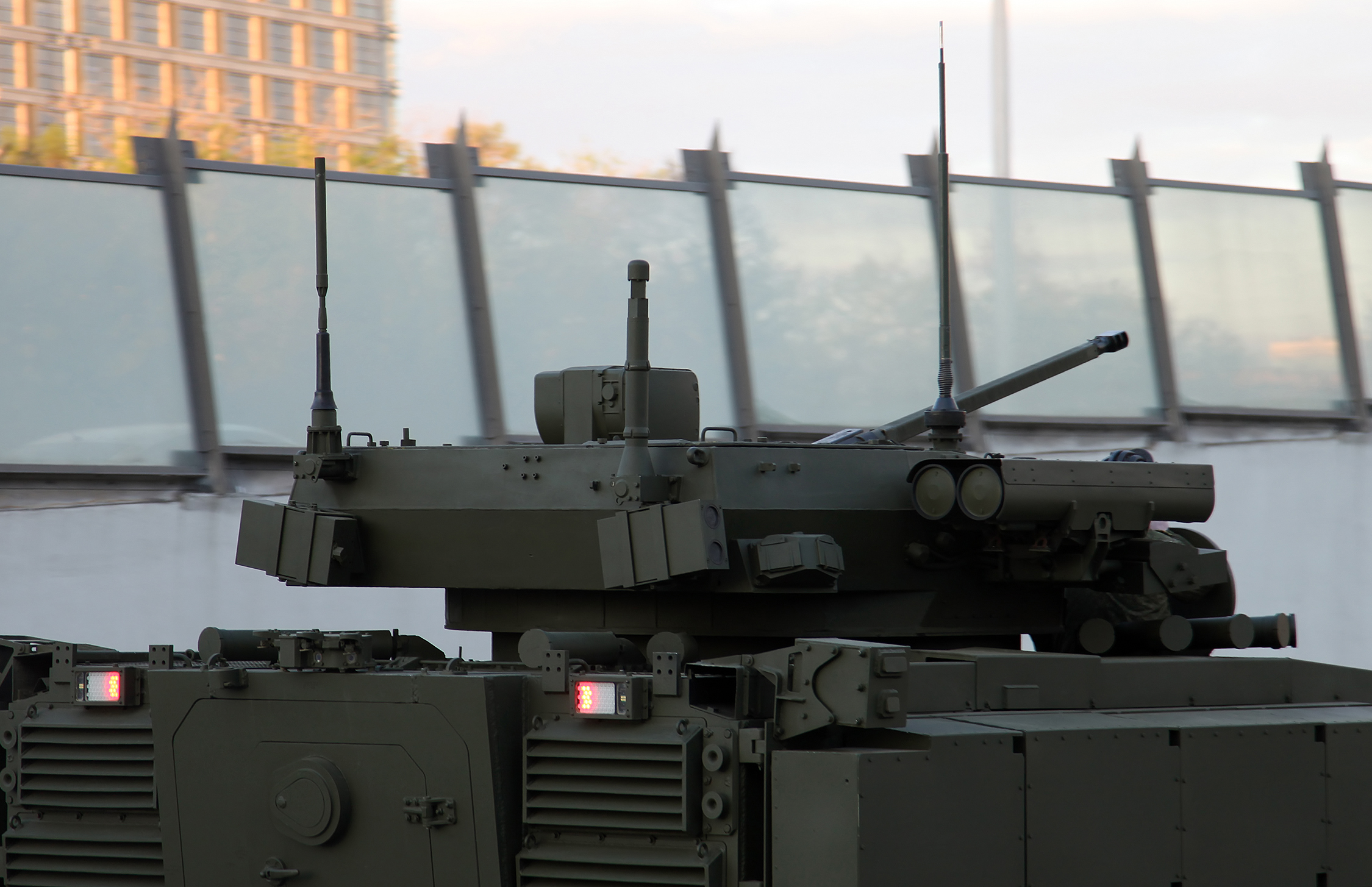 Infantry fighting vehicle object 695 Kurganets-25